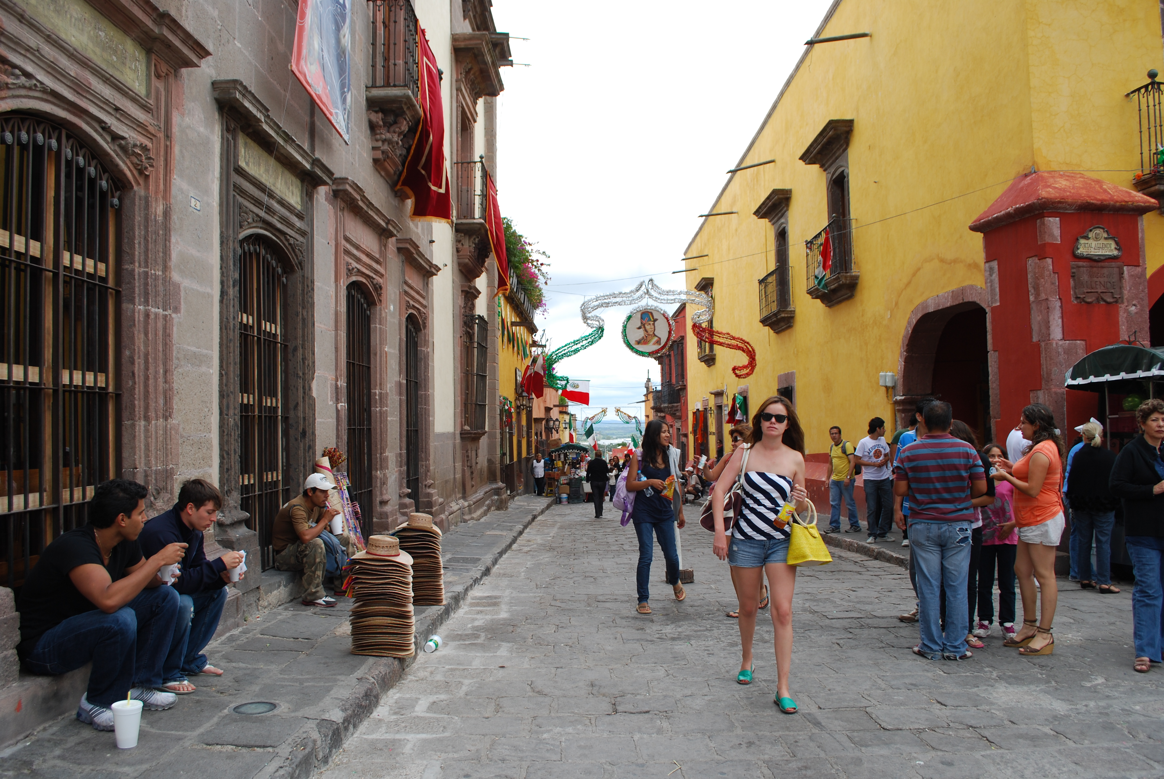 Looking north on Hidalgo Street in San Miguel Allende, Guanajuato, Mexico